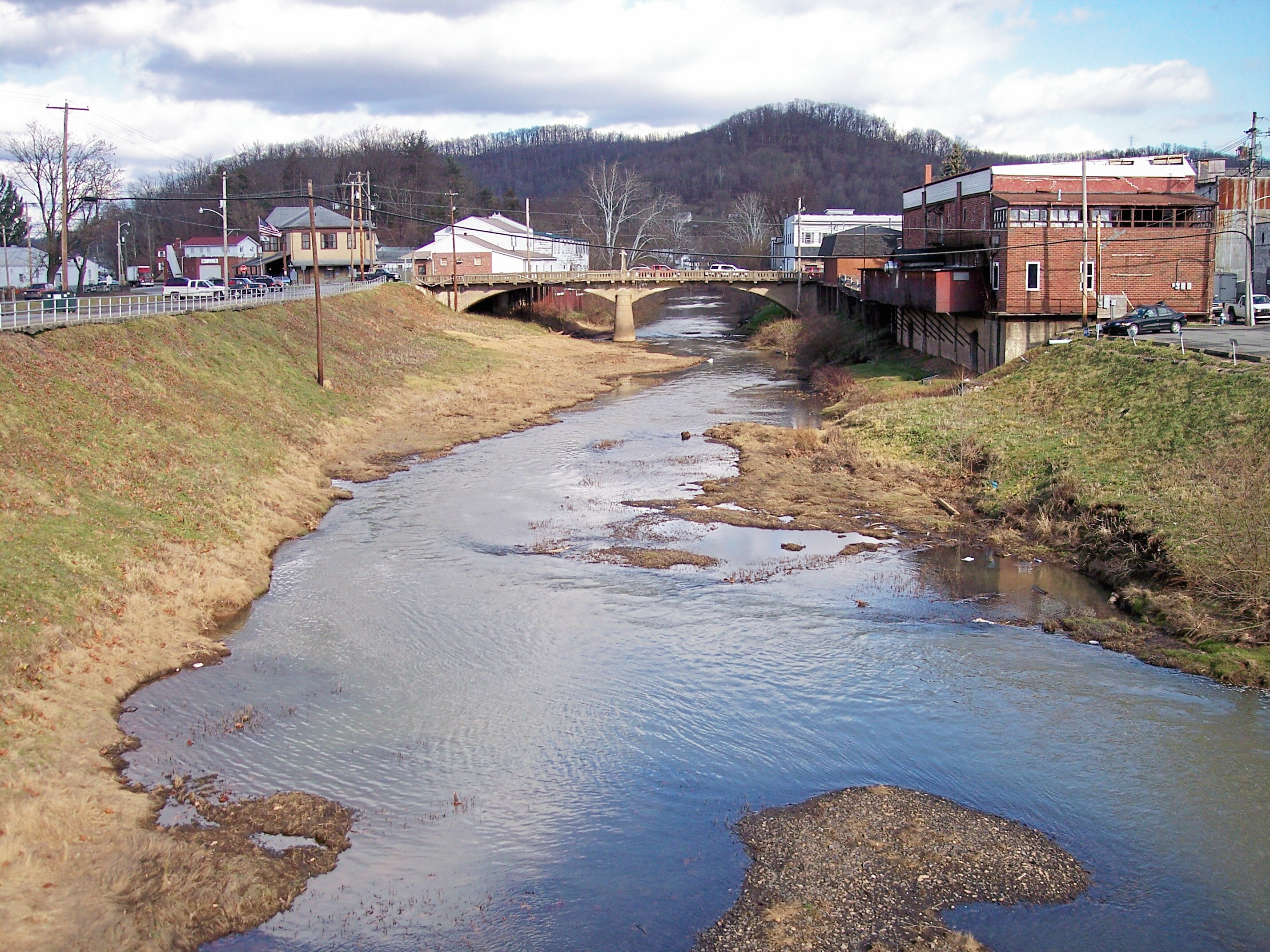 The West Fork River in Weston, West Virginia, looking upstream